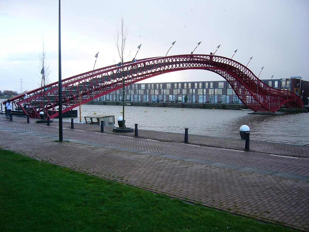 A side shot of the Borneo Sporenburg Bridge by the Dutch West 8 design company